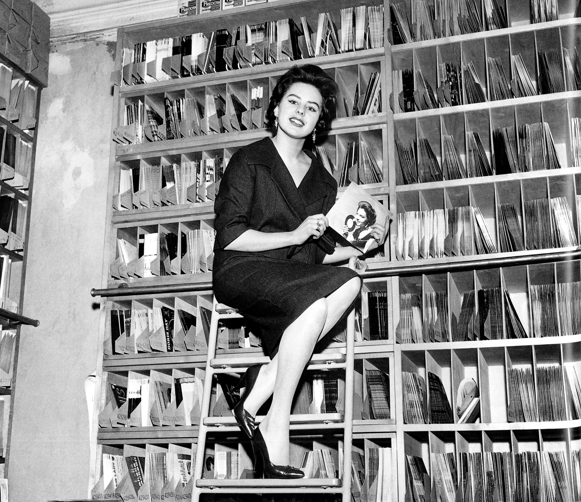 Publicity photograph of the Finnish singer Pirkko Mannola (1938–).